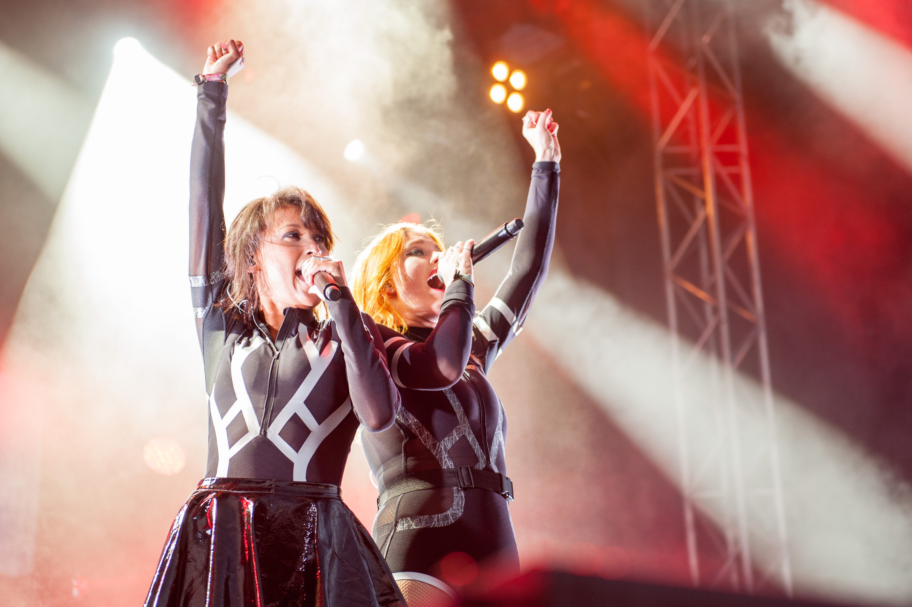 Icona Pop at Way Out West in Gothenburg, Sweden, august 2014